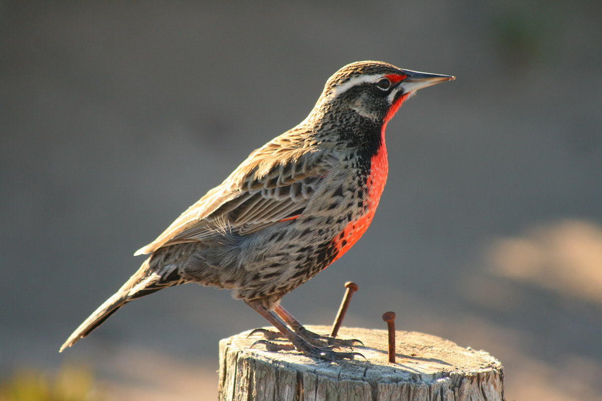 Sturnella loyca